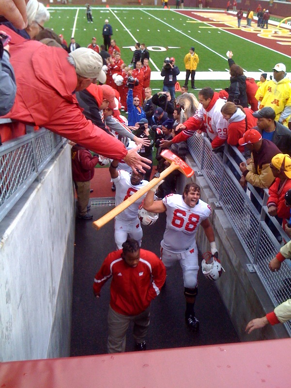 Gabe Carimi, with an axe in a tunnel.